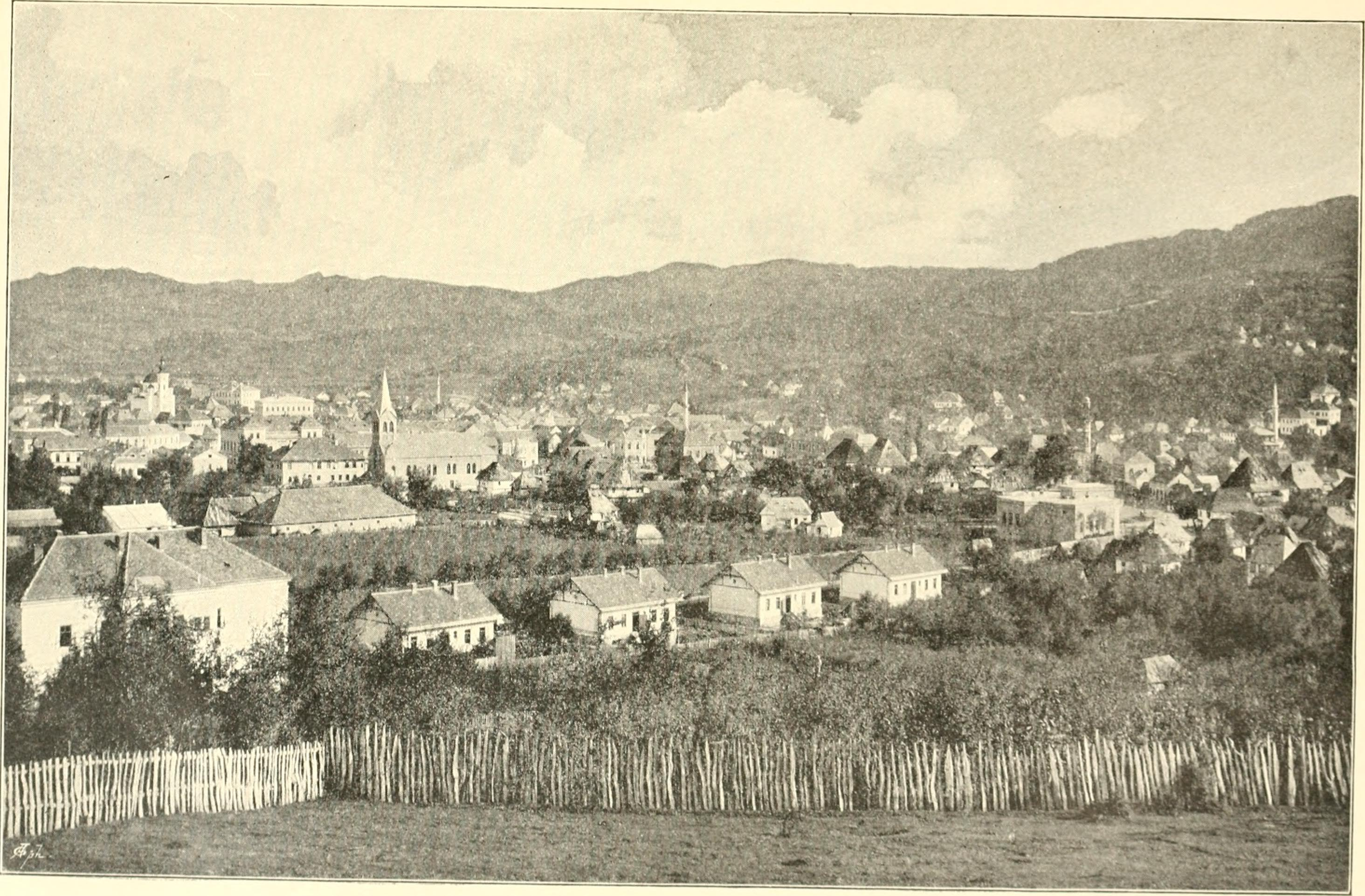 Title: Durch Bosnien und die Herzegovina kreuz und quer; Wanderungen Year: 1897 (1890s) Authors: Renner, Heinrich Subjects: Bosnia and Hercegovina -- Description and travel Publisher: Berlin D. Reimer (E. Vohsen) Text Appearing Before Image: ion auch in diesemTheile desLandes seine Strenge gegen dieUebergriffeder mohammedanischenEdlen zur vollen Geltung brachte, traf die neue politische Einrichtungzum Segen des Ortes. Auch er konnte freilich nicht voraussehen, wasaus Tuzla für ein Bergwerks- und industrielles Centrum werden würde, undunter türkischer Verwaltung wäre es ein solches auch nie geworden. Die Stadt ist beinahe gänzlich umgebaut worden; sie besitzt zwarauch noch ihre türkischen Viertel, aber in der Hauptsache sind eStrassen breit und rein, die Gebäude neu und modern. An Stelle desverfallenen Kastells, das demolirt wurde, ist der Sooo Quadratmeter grosseAppellplatz getreten. In dessen Mitte steht ein Obelisk, am Nordende dasim maurischen Stile erbaute Rathhaus. An modernen Amtsgebäuden sinddas Kreisgebäude, das Bezirksamt, das Brigadekommando, das Saline-Amtu. s. w. erstanden. Ein bedeutender Fortschritt zeigt sich auch in denzahlreichen Schulen, die- allerdings meist noch konfessionell sind. Einen 543 Text Appearing After Image: '